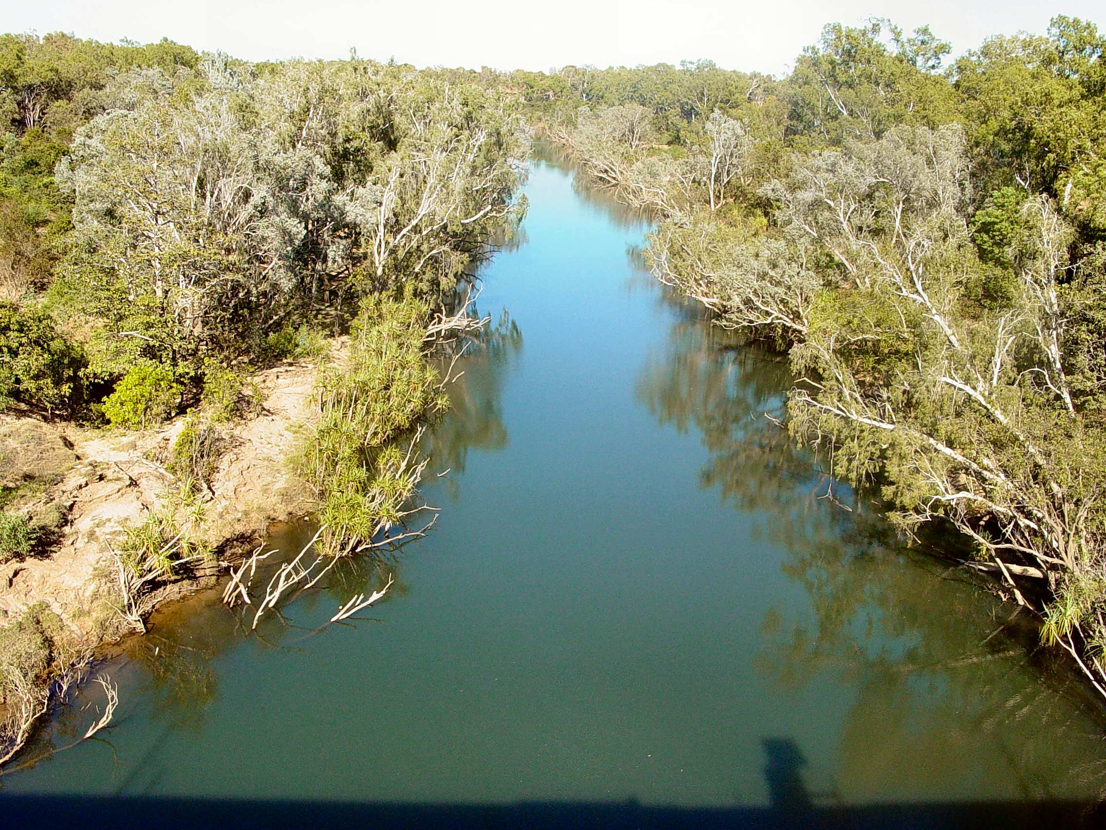 Photo taken and provided by Brian Voon Yee Yap. Looking over the Katherine River at Katherine, from the disused narrow gauge railway bridge.